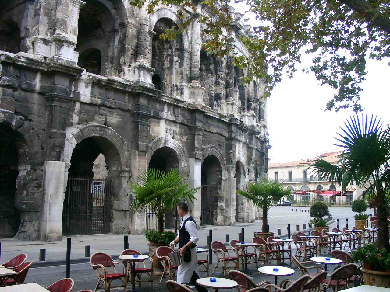 Roman amphitheater of Nîmes , France